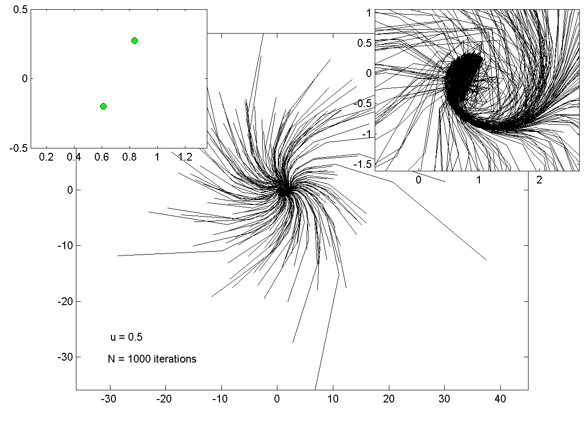 Ikeda trajectory plot made using MATLAB